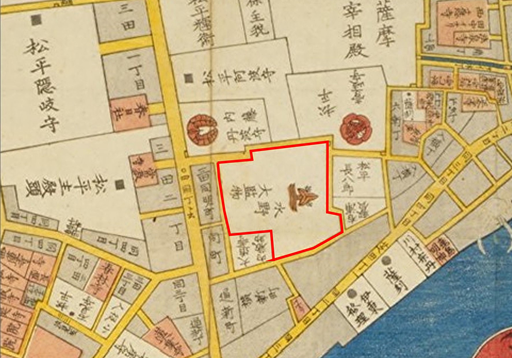 Residence of Yamagata-Mizuno at Edo